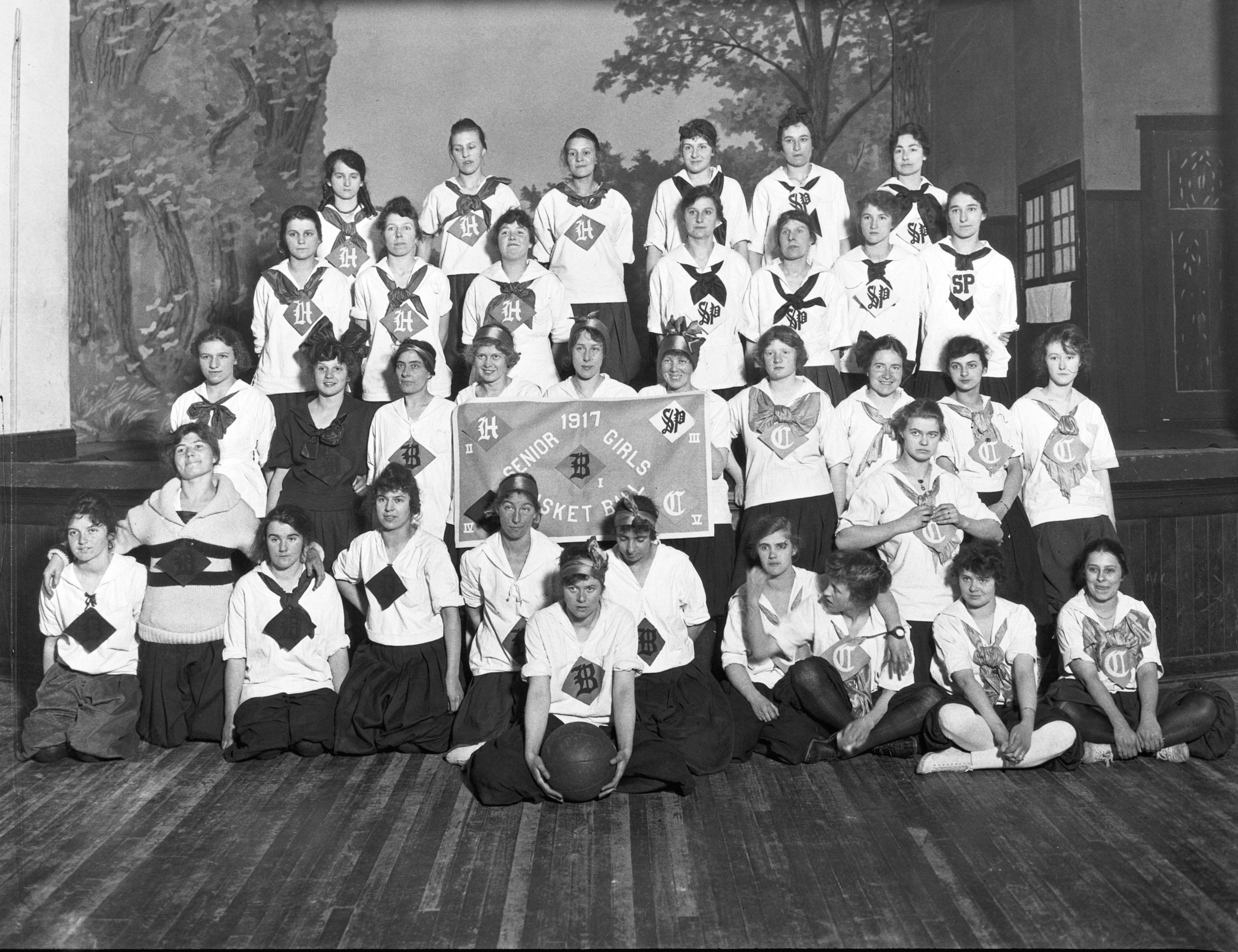 Collins Fieldhouse girls basketball team, 1917. Item 1286, Engineering Department Photographic Negatives (Record Series 2613-07)